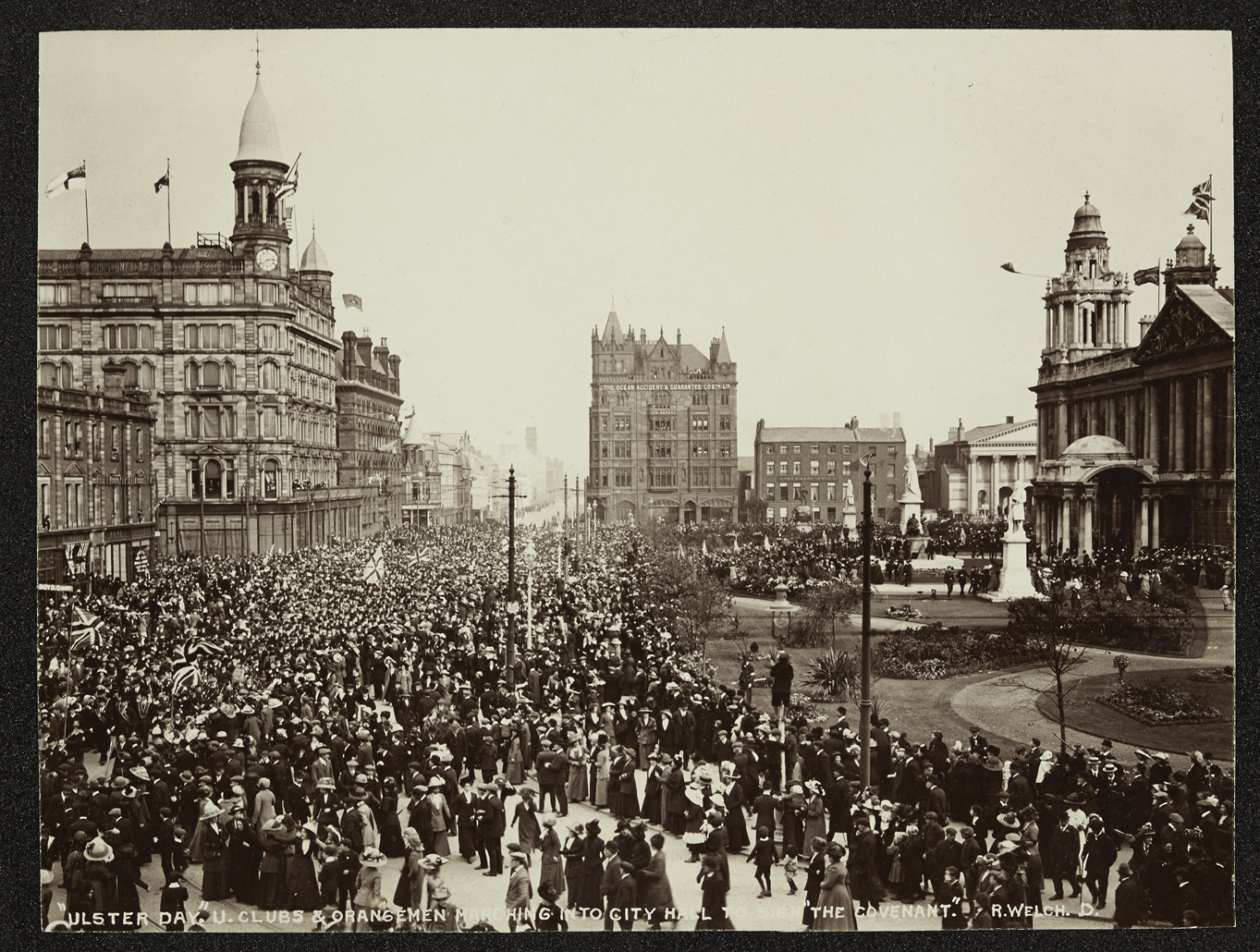 Creator: R. Welch (Photographer) Date: 1912 Original Format: Photographic Print Description: Ulster Day, Unionist Clubs & Orangemen marching into City Hall to sign the Covenant, Belfast , Co. Antrim. PRONI Ref: D1403_2~059~A Copying and copyright: Please For Copy Orders, contact: For fees and charges